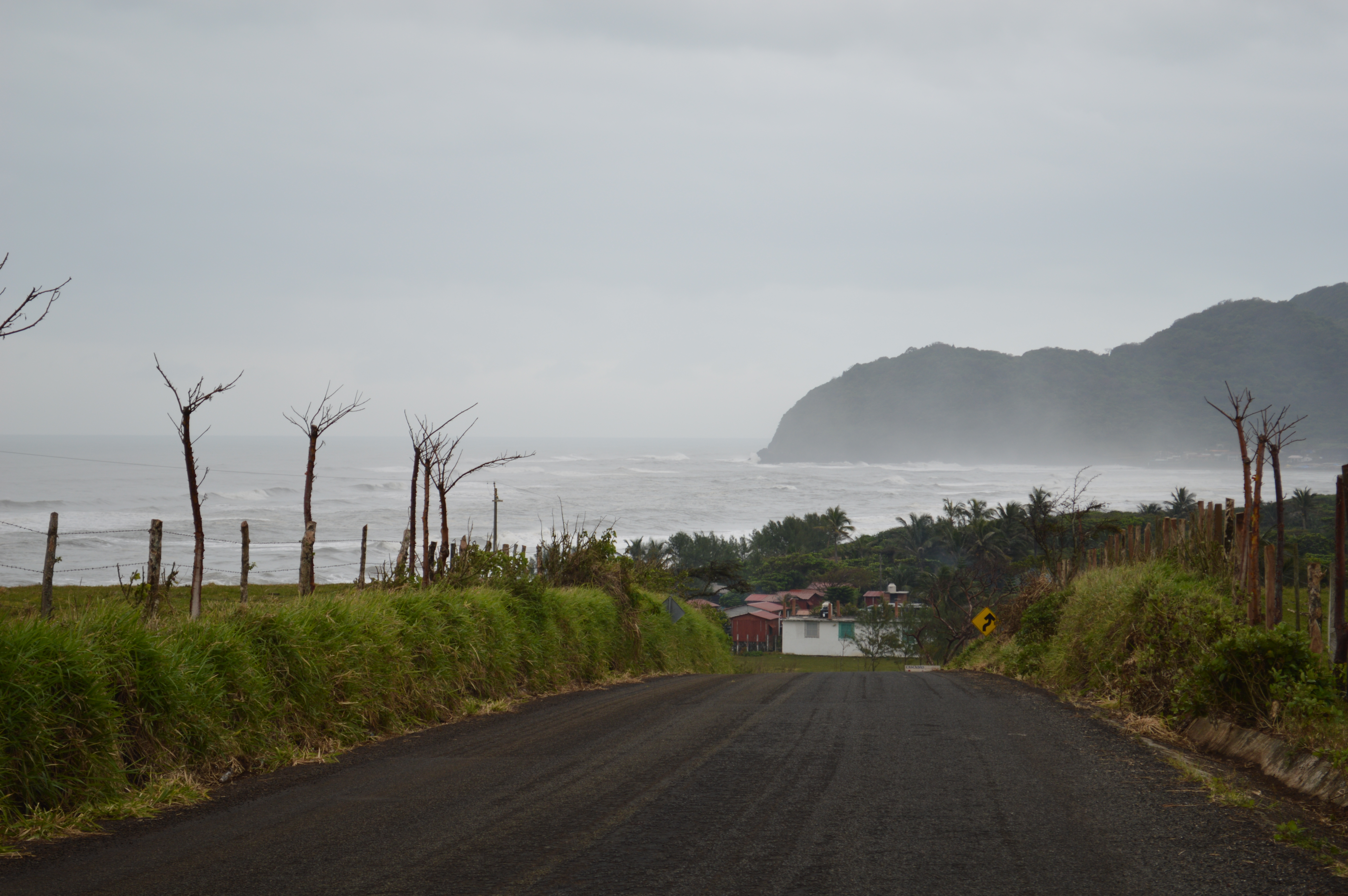 Playa Revolucion in the San Andrés Tuxtla municipality, Veracruz, Mexico